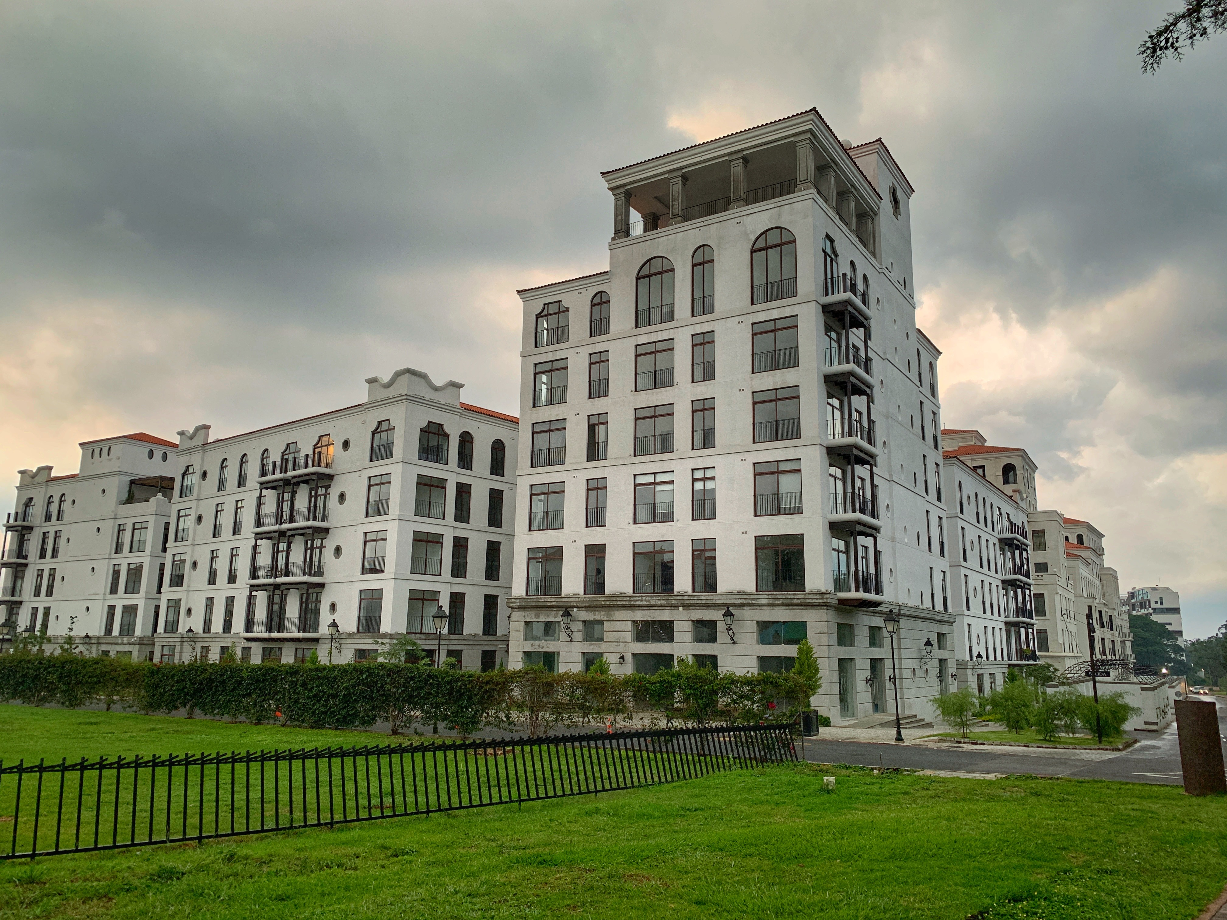 Ciudad Cayala, zone 16 of Guatemala City